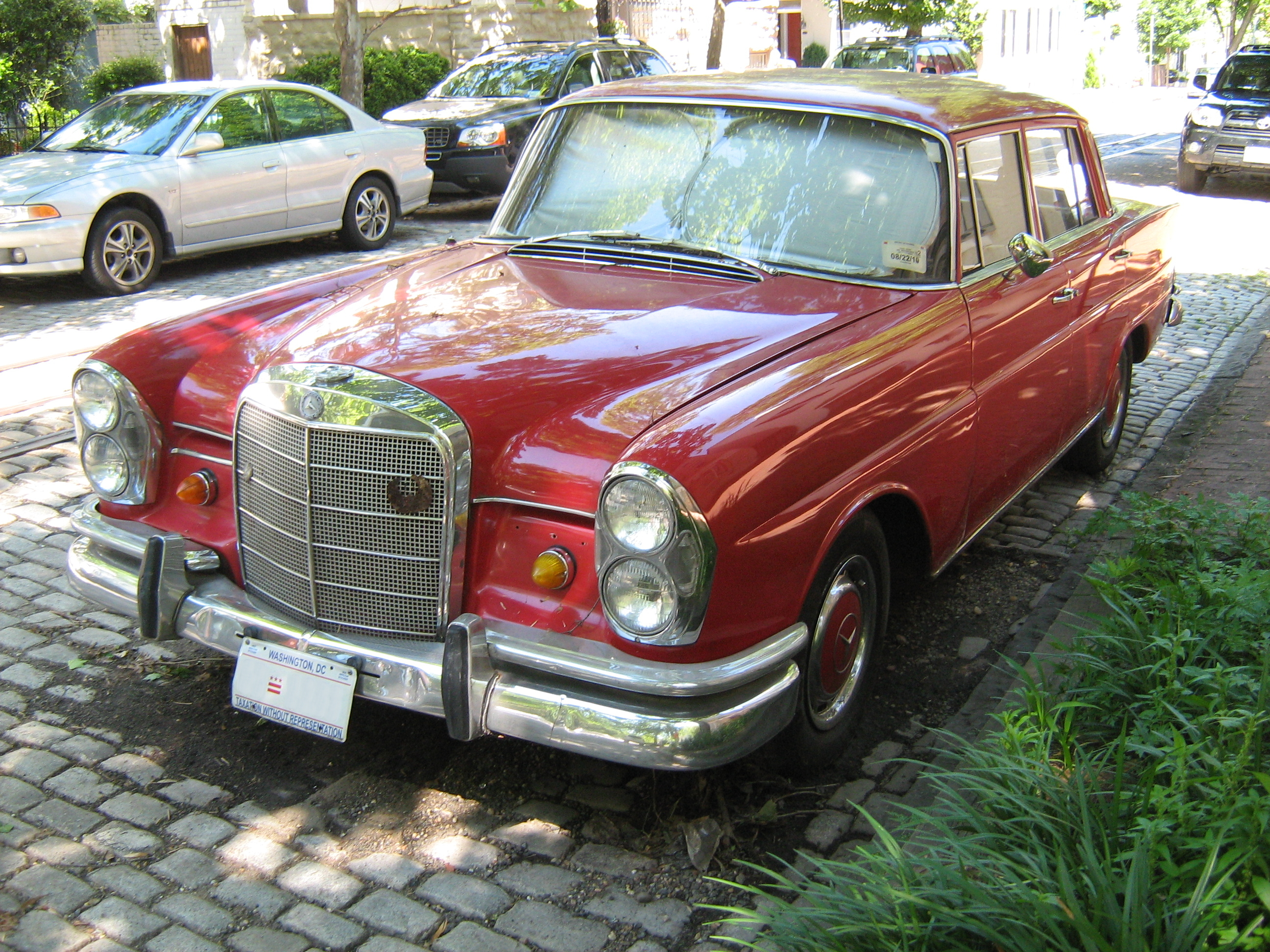 Mercedes-Benz 230S red, four-door sedan